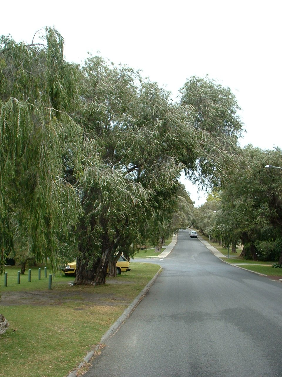 Peppermint trees (Agonis flexuosa) lining Keane St in Peppermint Grove